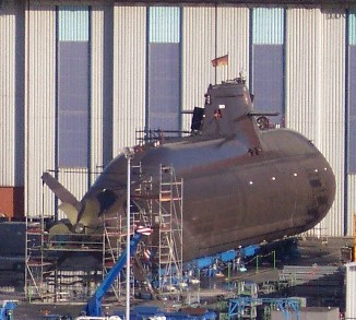 Type 212 Submarine in Docks at HDW/Kiel